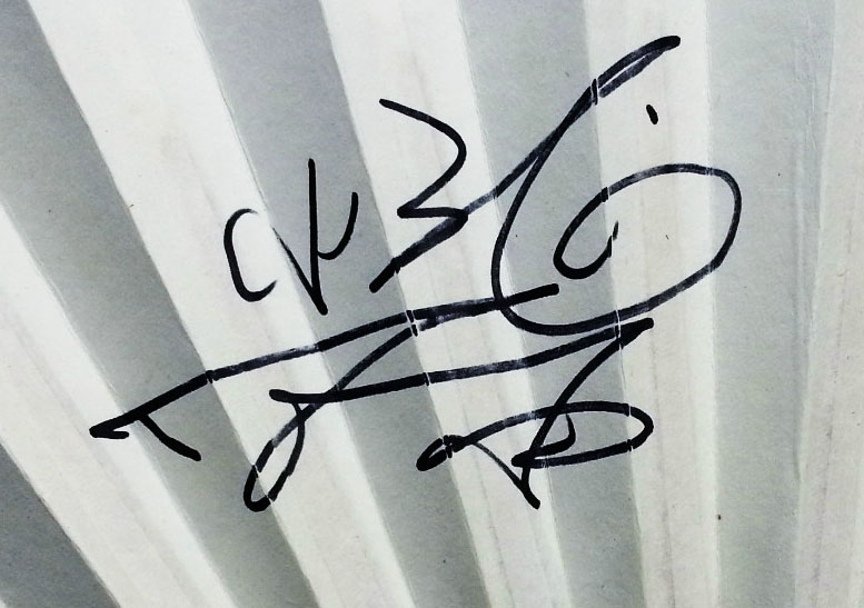 This is Danny Chan Kwok Kwan's signature.